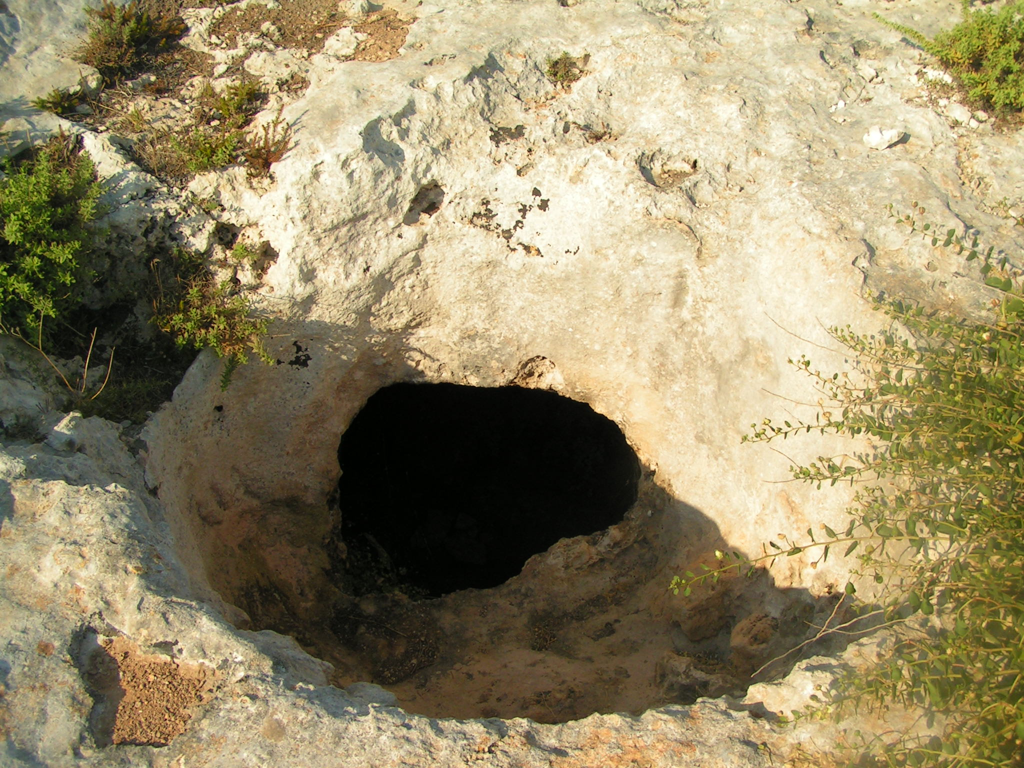 Neolithic Tomb 4 This media is about Maltese cultural property with inventory number 00028.